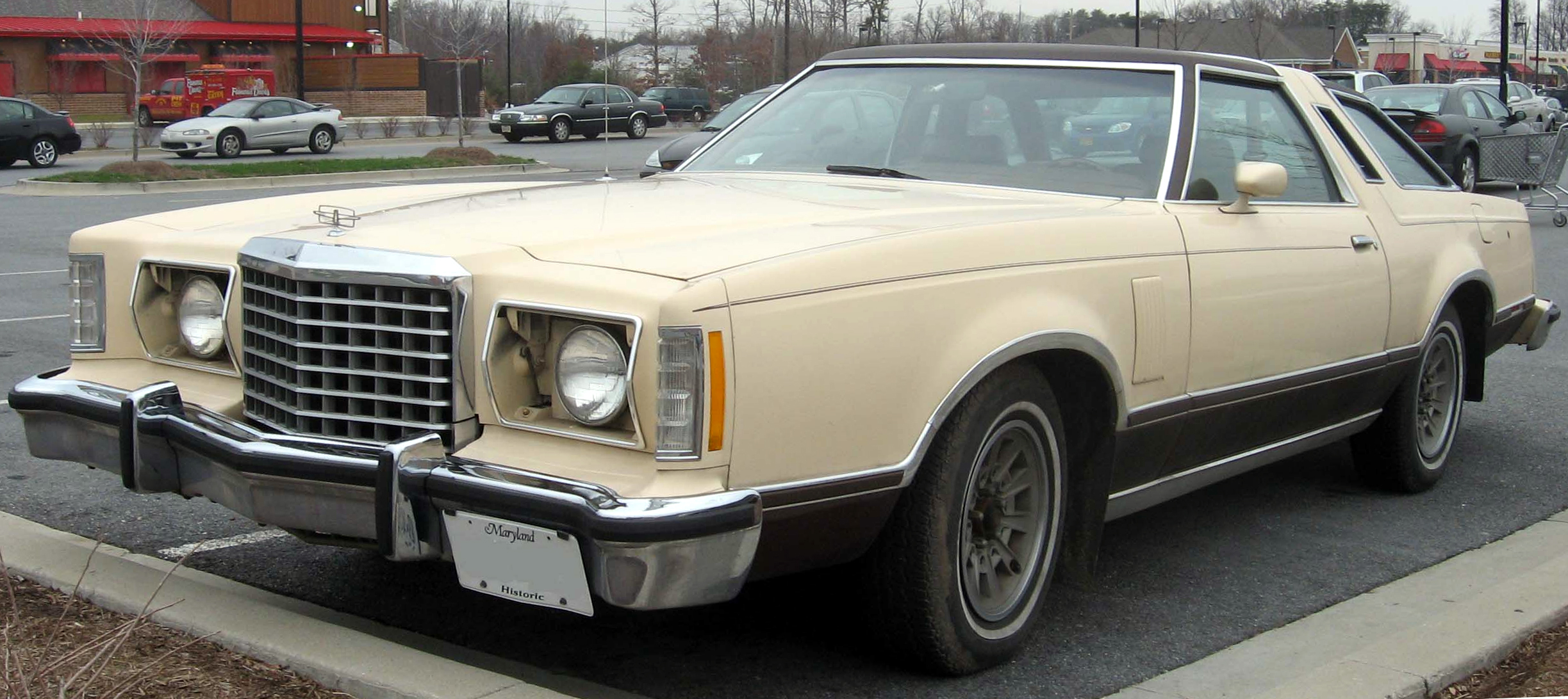 1977-1979 Ford Thunderbird photographed in Waldorf, Maryland, USA.